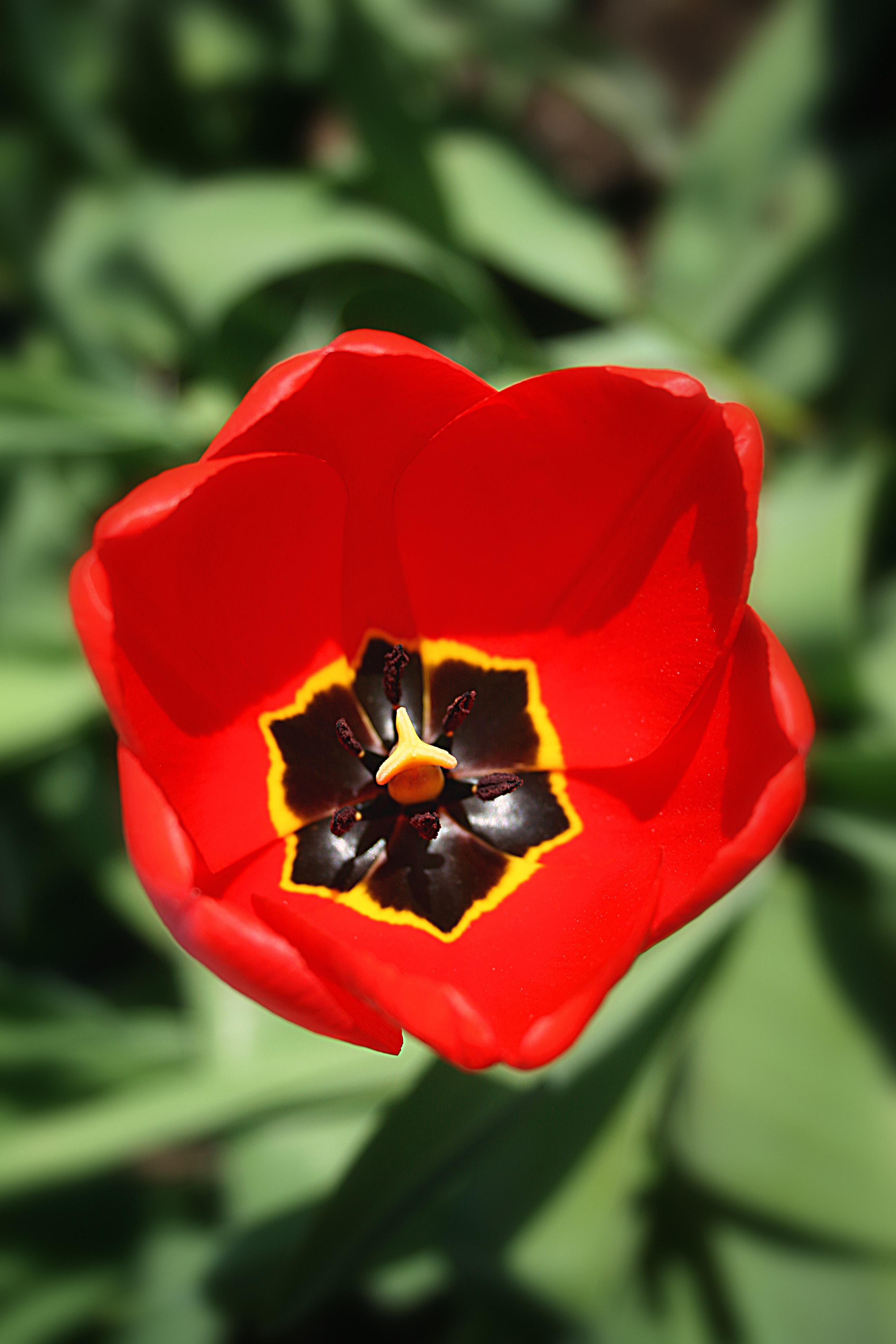 Inside of a tulip flower; central yellow pistil and surrounding stamina are clearly visible.